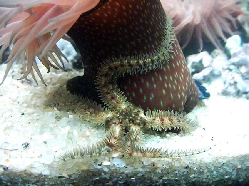 A strawberry anemone and a common brittle-star